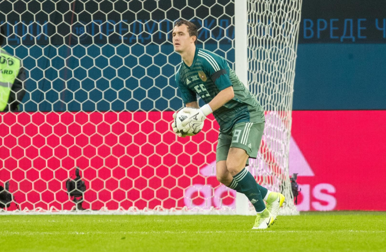 27.03.2018. Россия, Санкт-Петербург, «Санкт-Петербург». Товарищеский матч «Россия» — «Франция».